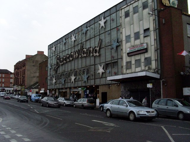 Barrowlands, Glasgow Another look at the famous ballroom.